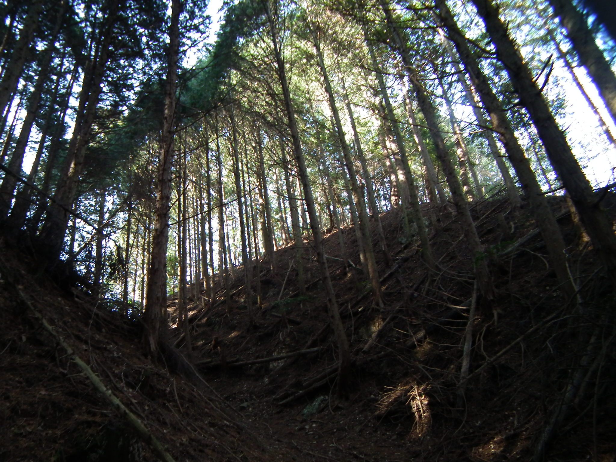 Kanegasaka-Toge